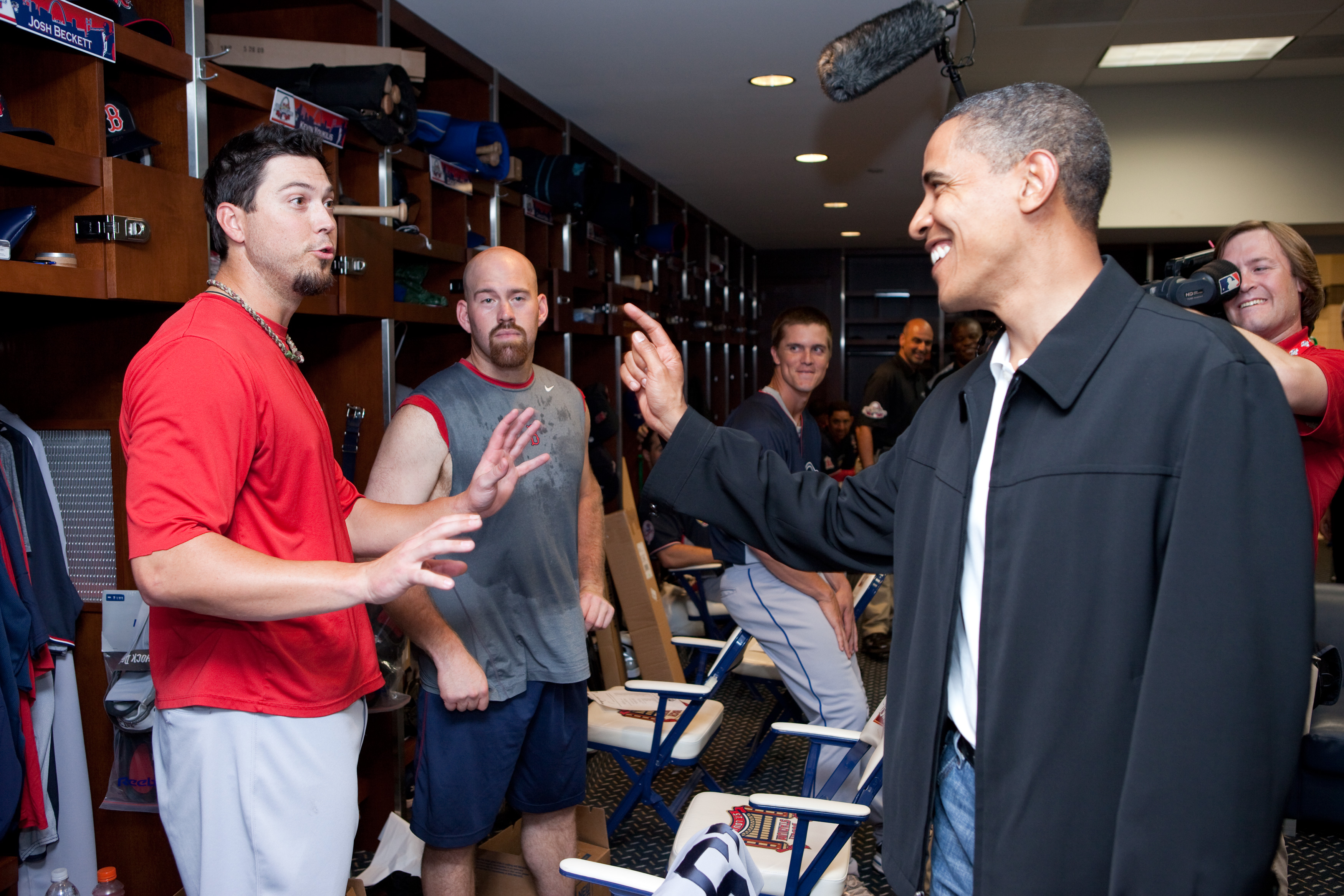 Josh Beckett (left), Kevin Youkilis (center), Zack Greinke (middle) and Barack Obama